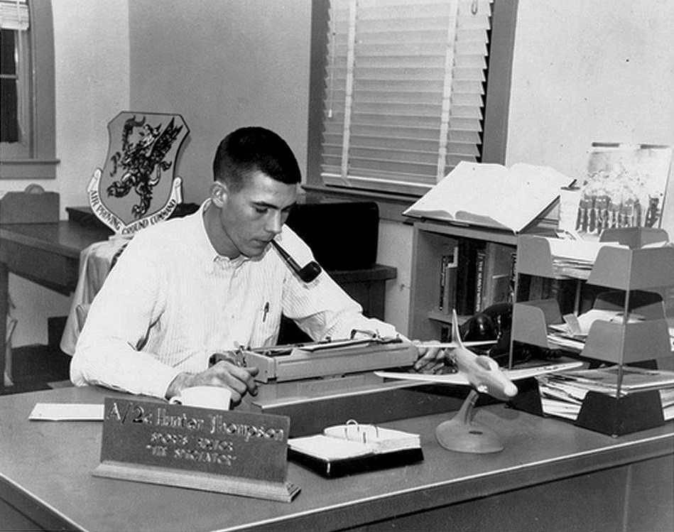 Airman second class Hunter S. Thompson at his desk in 1957 as sports editor of the Command Courier, a military publication serving the Eglin Air Force Base in the Florida Panhandle.